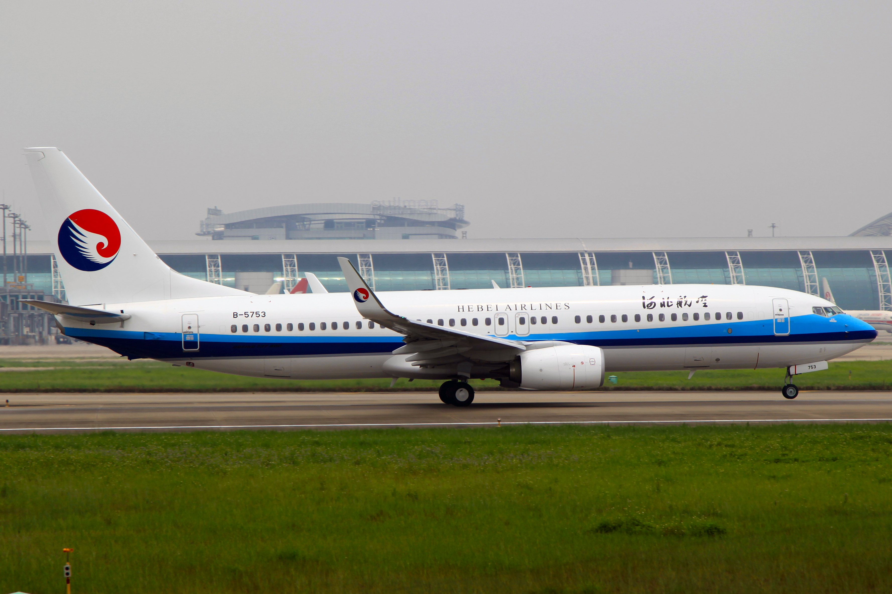 Hebei Airlines Boeing 737-85C(WL) B-5753 @ Guangzhou Baiyun International Airport